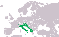 Distribution of Triturus carnifex, based on Nöllert/Nöllert: "Die Amphibien Europas" New map based ion [1]. Old map was wrong because it didn't include Croatia, and this species is protected in Croatia.